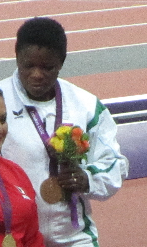 Gold: Angeles Ortiz Hernandez (Mexico); Silver: Stela Eneva (Bulgaria); Bronze: Eucharia Iyiazu (Nigeria)